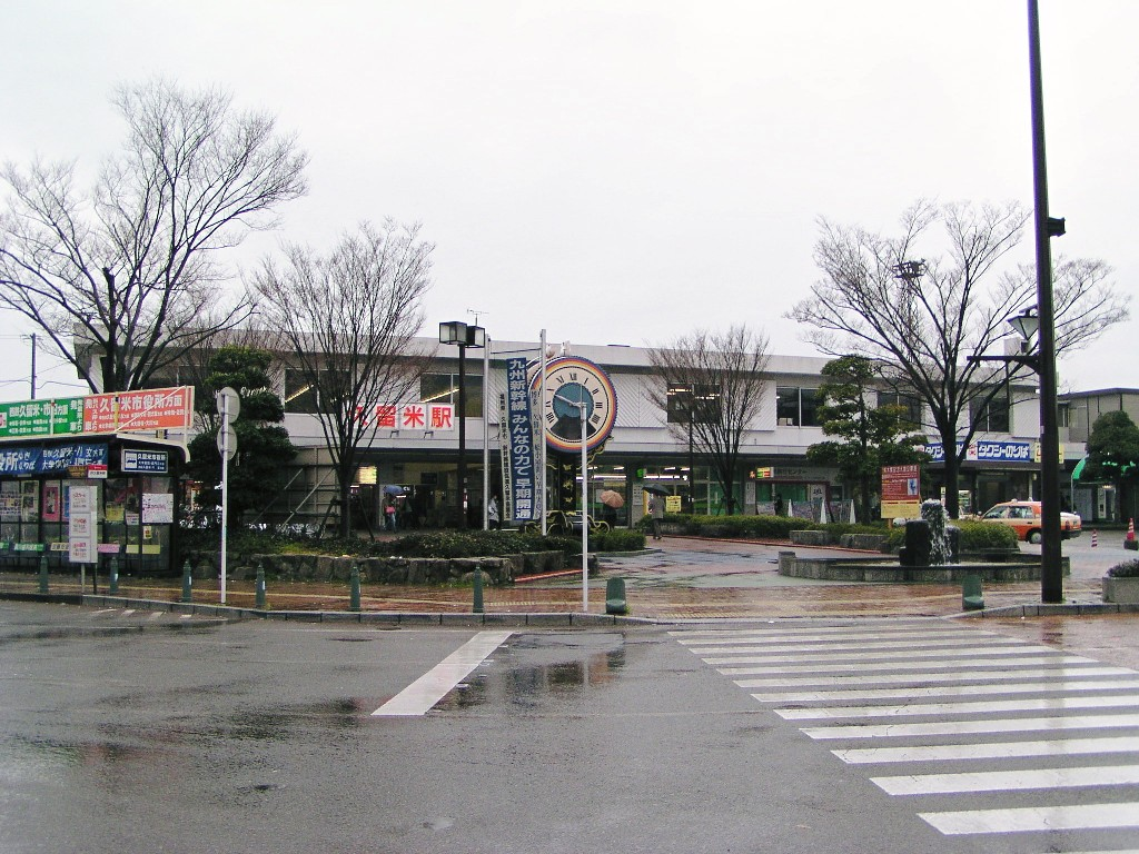 Kurume Station on 27 March 2005